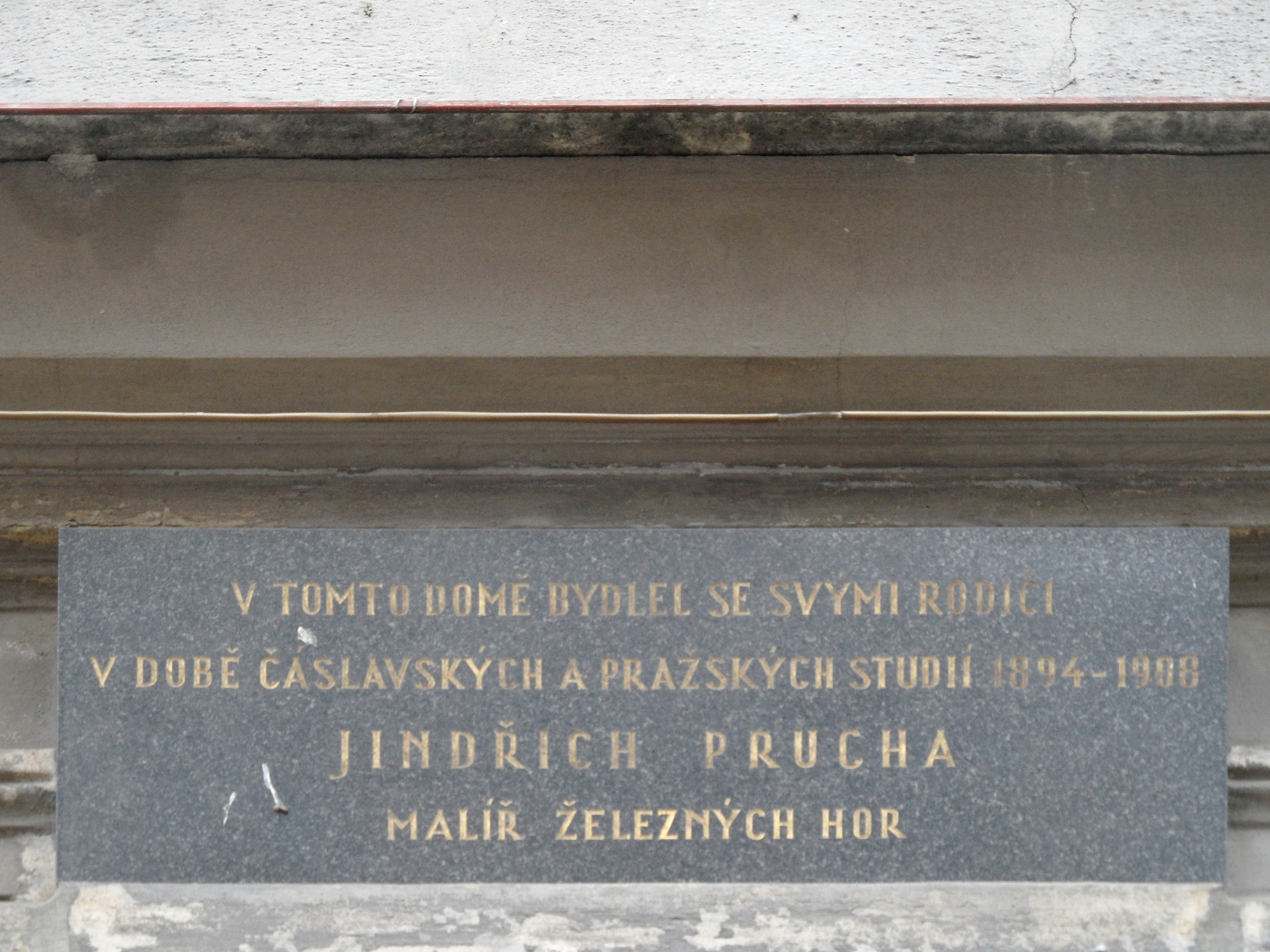 Čáslav, painter Jindřich Prucha: Memorial Plaque (Husova 329/5). Kutná Hora District, the Czech Republic.